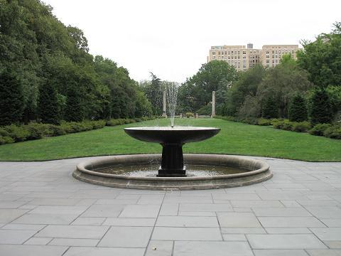 Description: Brooklyn Botanic Garden - Source: own work - Author: self, User:Stavenn